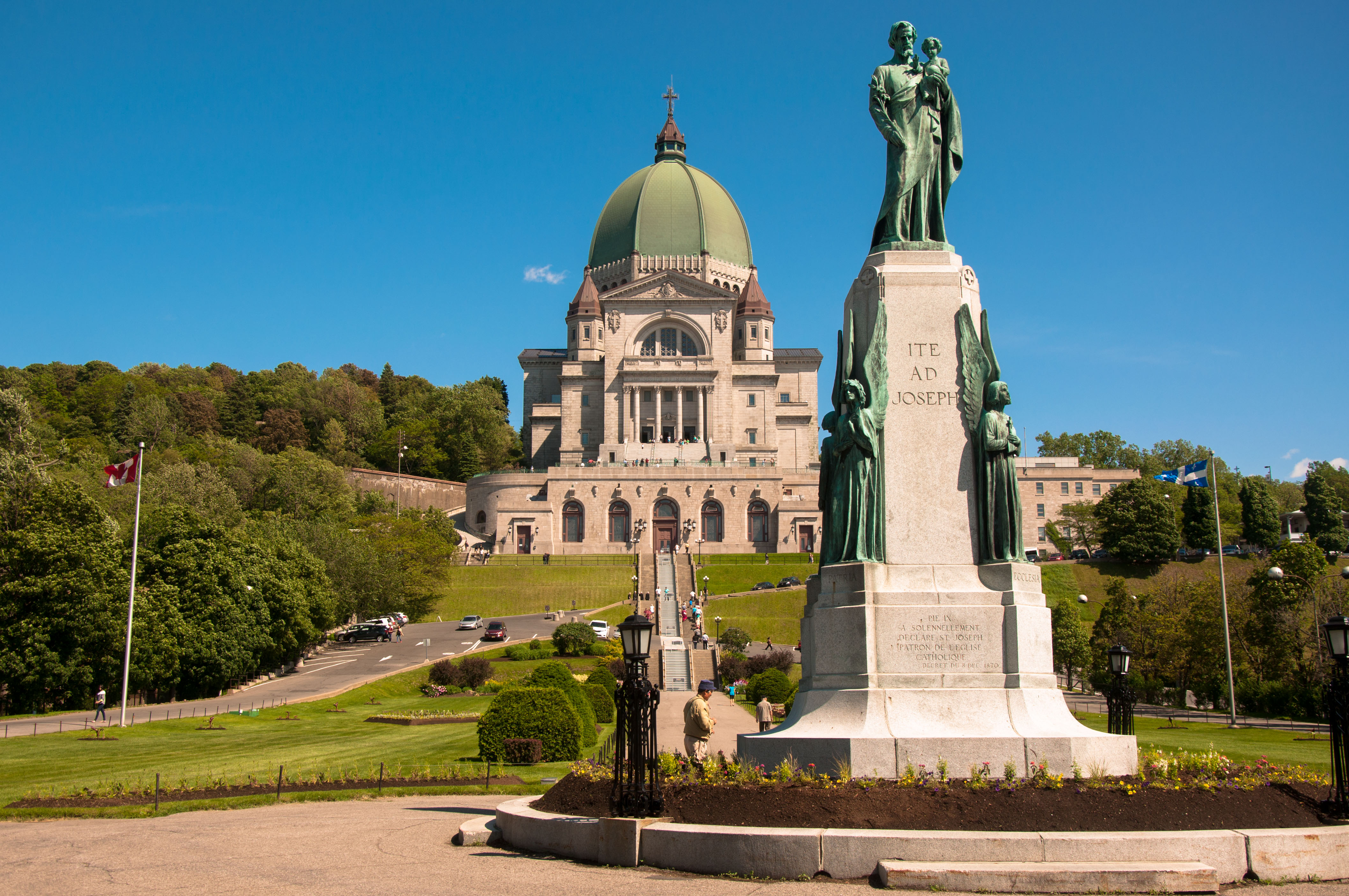 The oratory in Montreal on a beautiful day.